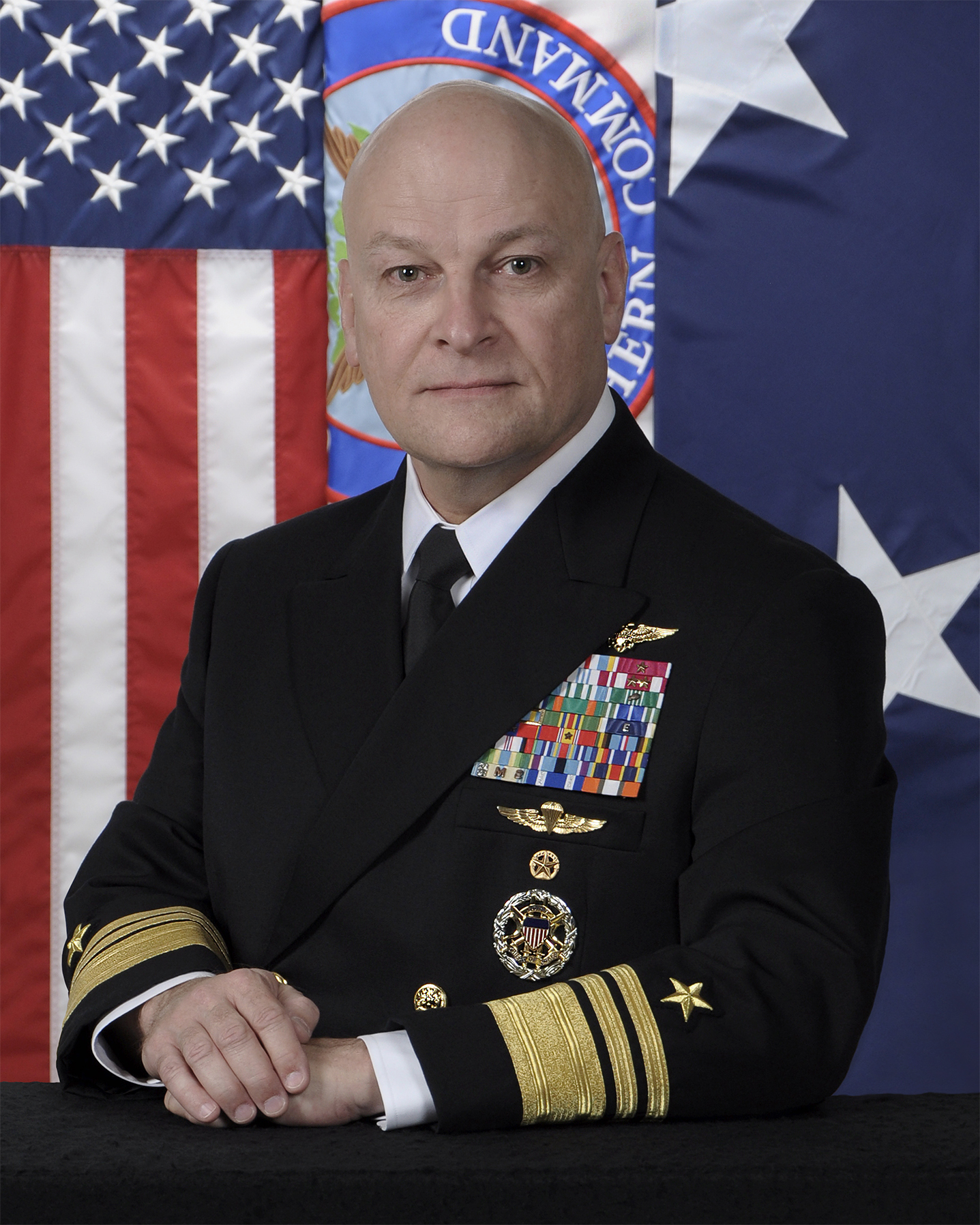 Vice Admiral Michael J. Dumont is the Deputy Commander, U.S. Northern Command, and Vice Commander, U.S. Element, North American Aerospace Defense Command at Peterson Air Force Base, Colorado.